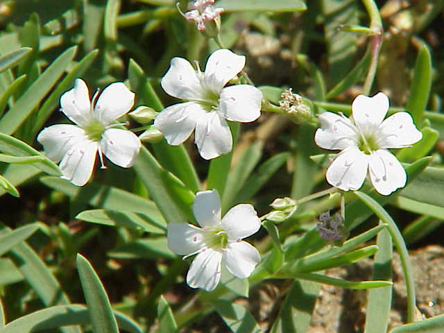 Species: Gypsophila repens Family: Caryophyllaceae Image No. 1